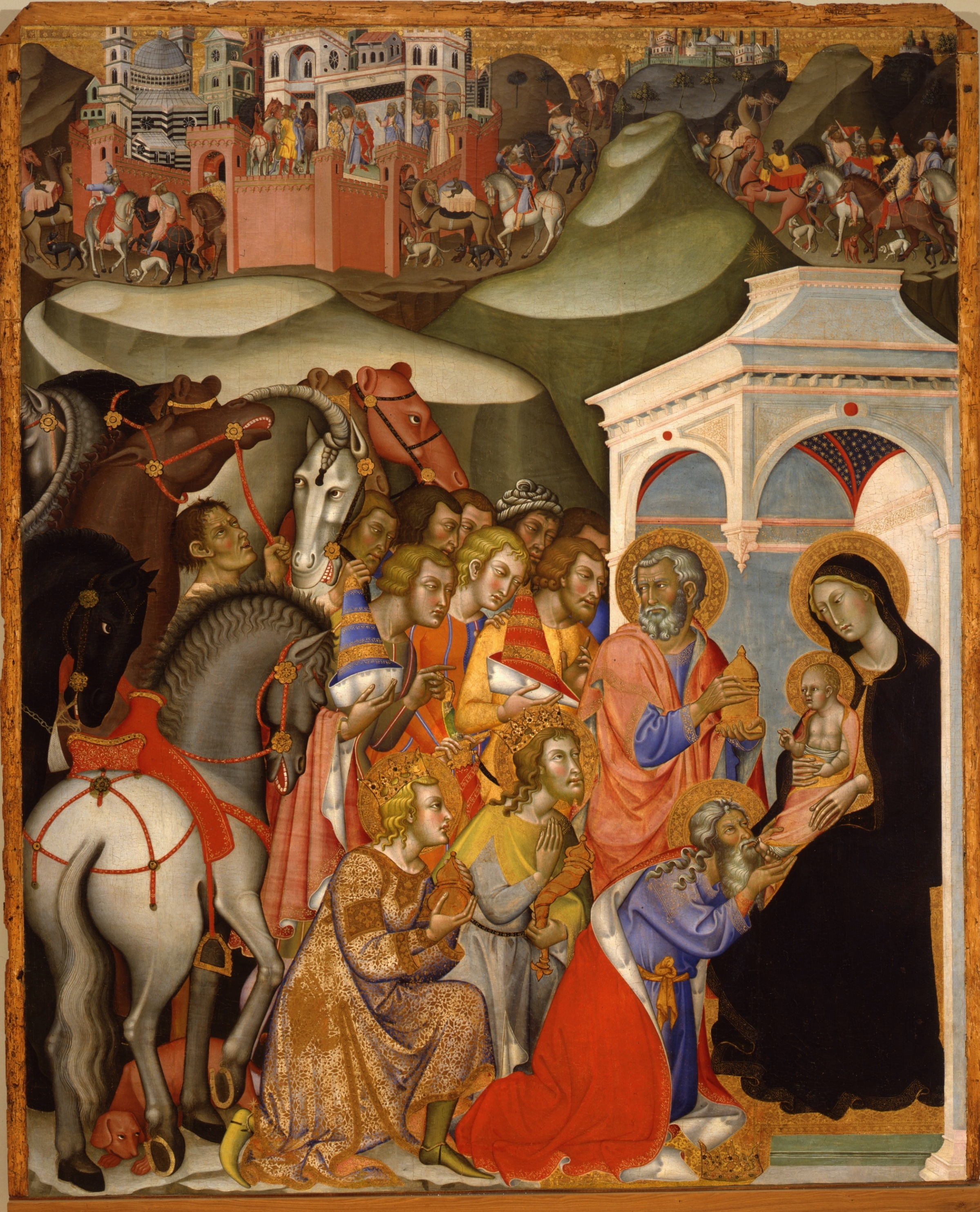 Adoration of the Magi, 195 х 163 cm. tempera on panel